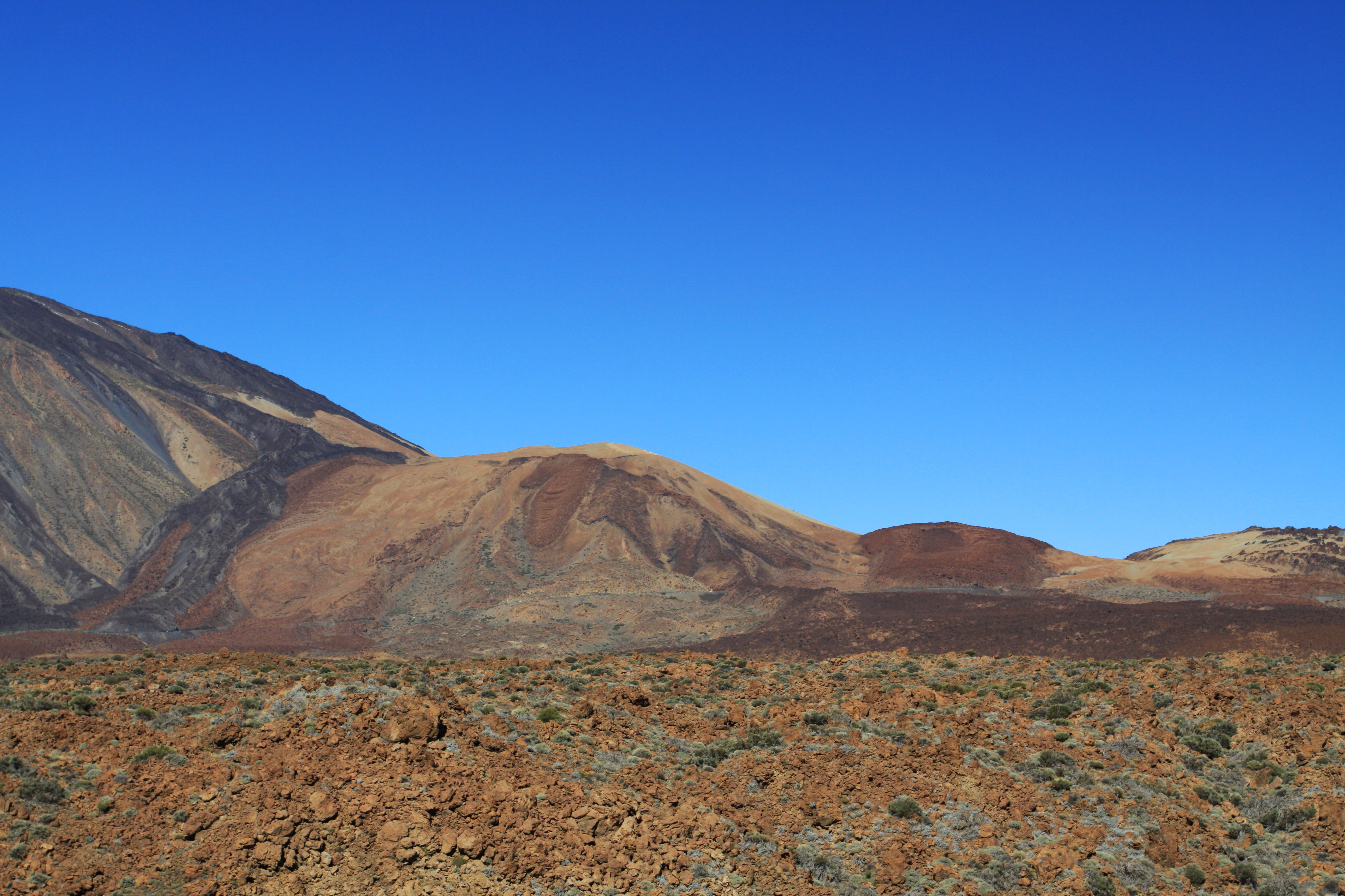 Volcano Montaña Blanca on Teide on Tenerife, Canary Islands, Spain.